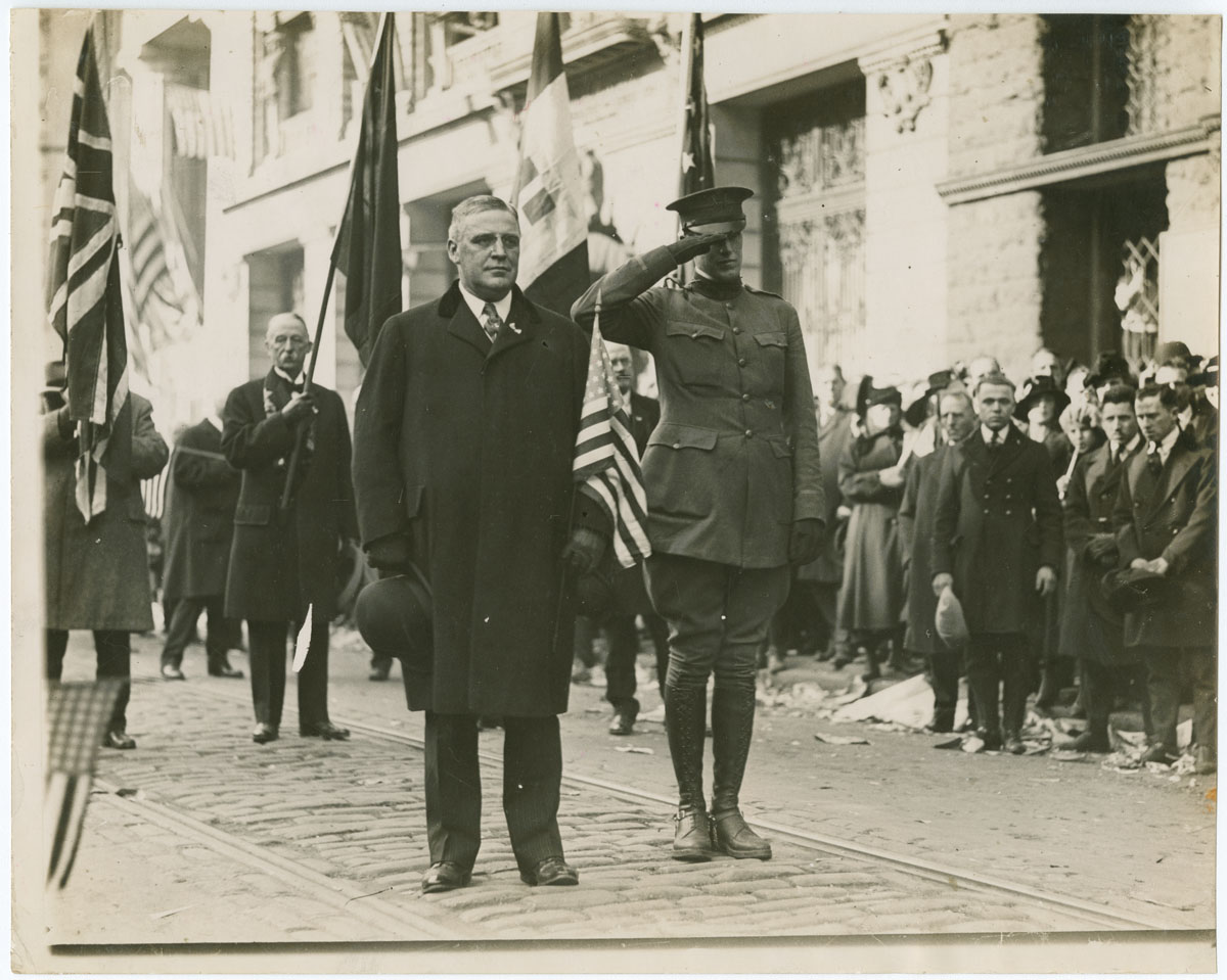 World War I-era photograph shows Pennsylvania Governor-elect William Cameron Sproul and his son Jack leading the Union League in the Peace Parade on November 11, 1918. Sproul won the gubernatorial election a mere 6 days prior to Armistice Day. Sproul would serve as Pennsylvania's governor from 1919-1923. Accession Number: 7066.Q.37